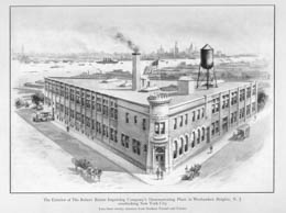 Advertisement depicting the Robert Reiner Importing Company as it appeared in the early 20th century. The image is more than 100 years old. Commercial opportunities of its owner are unlikely.